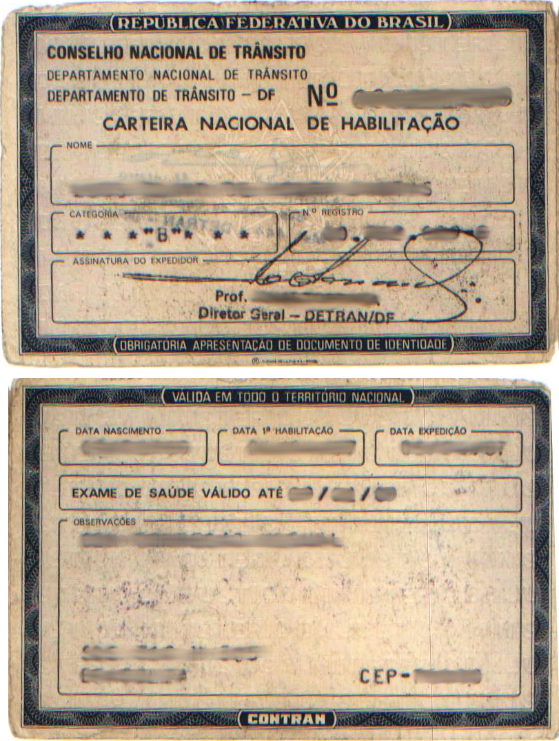 Driver's license from Brazil, as issued in the year 1987